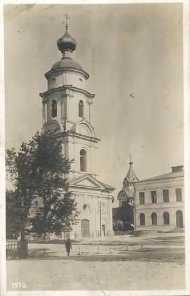 Chełm, Poland - localzation of Cyril and Methodius Orthodox Church (non existent)